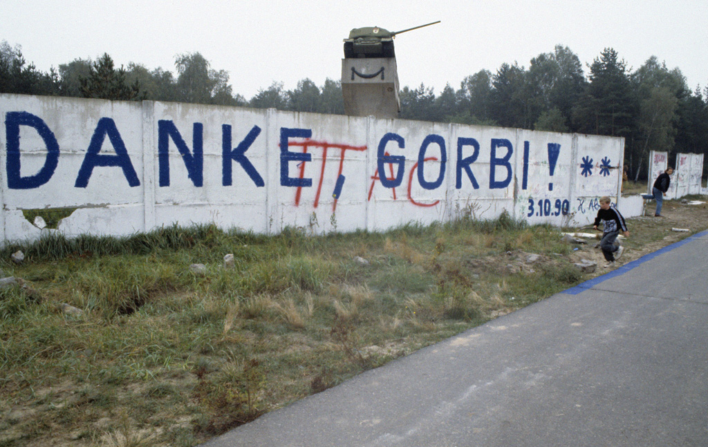 “Germany becomes one country”. October 3, 1990 the German Democratic Republic is falling under the FRG's Constitution. The message on the wall: "Thank you, Gorbi".